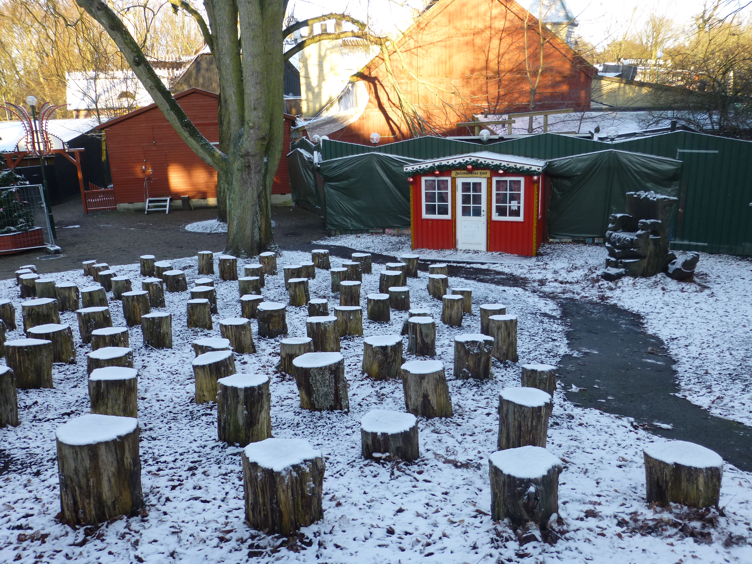 The amusementpark Dyrehavsbakken north of Copenhagen a Christmas Day with snow. Dyrehavsbakken was closed for the winter but there is free access all year around. Each year in july the World Santa Claus Congress takes place here. Each Santa Claus has his own seat with a name plate. But they were of course busy other where that day!